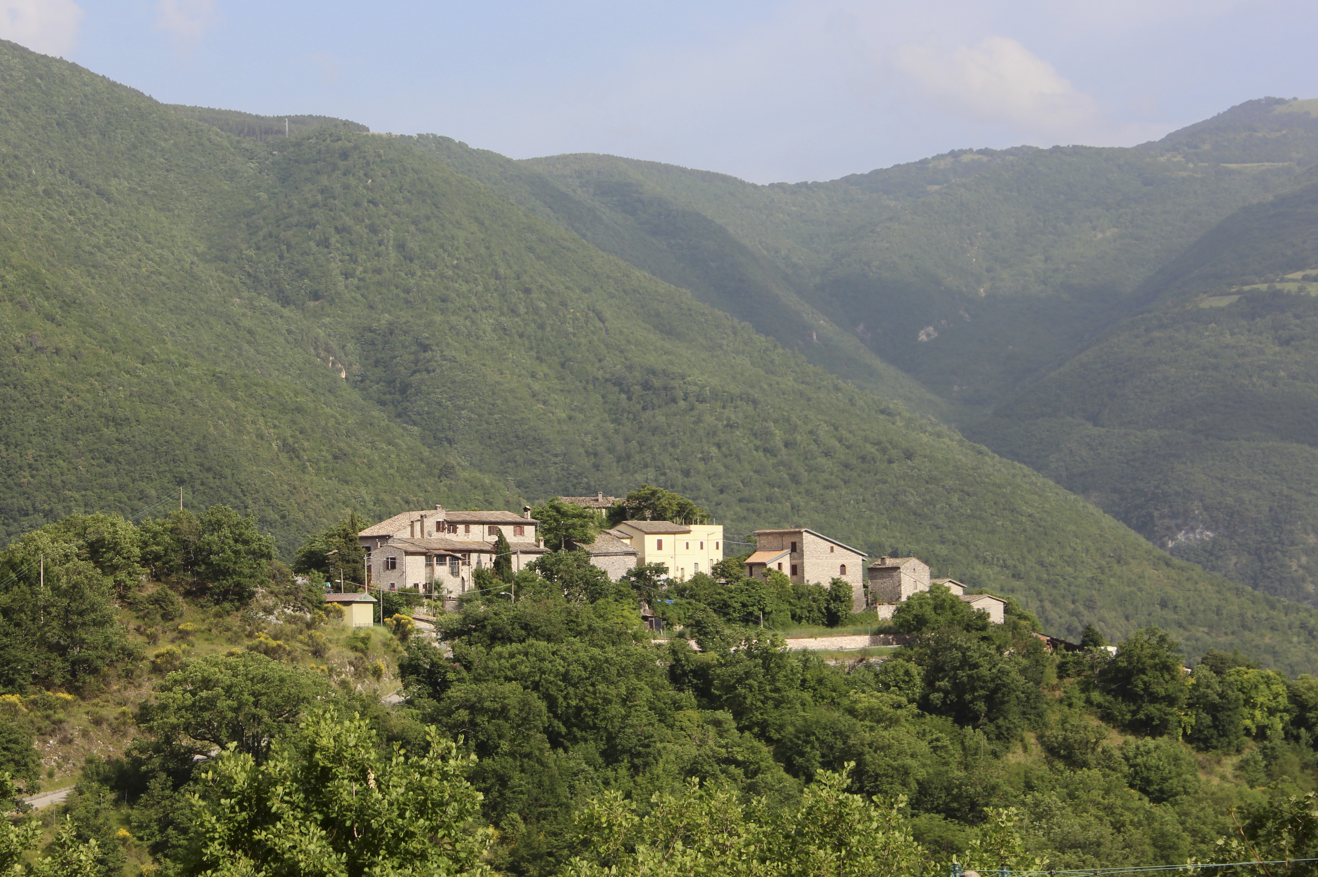 Paterno, hamlet of Vallo di Nera, Province of Perugia, Umbria, Italy